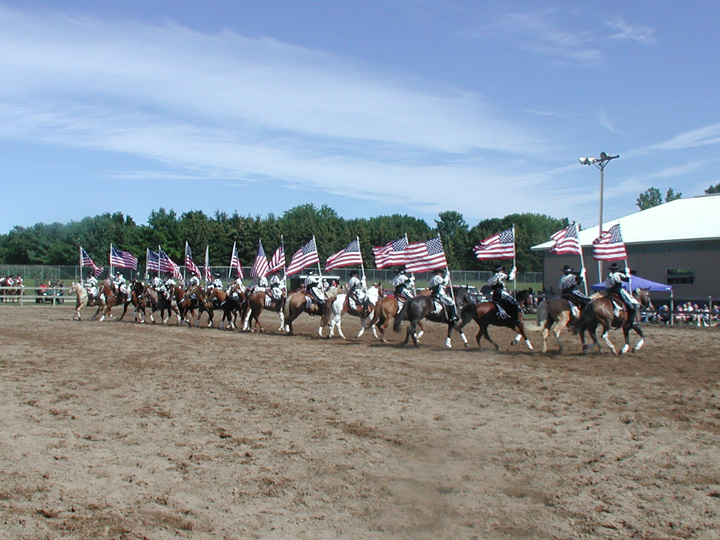 Kettle Moraine Rough Riders Drill Team competing at the Door County Fair, Sturgeon Bay, WI